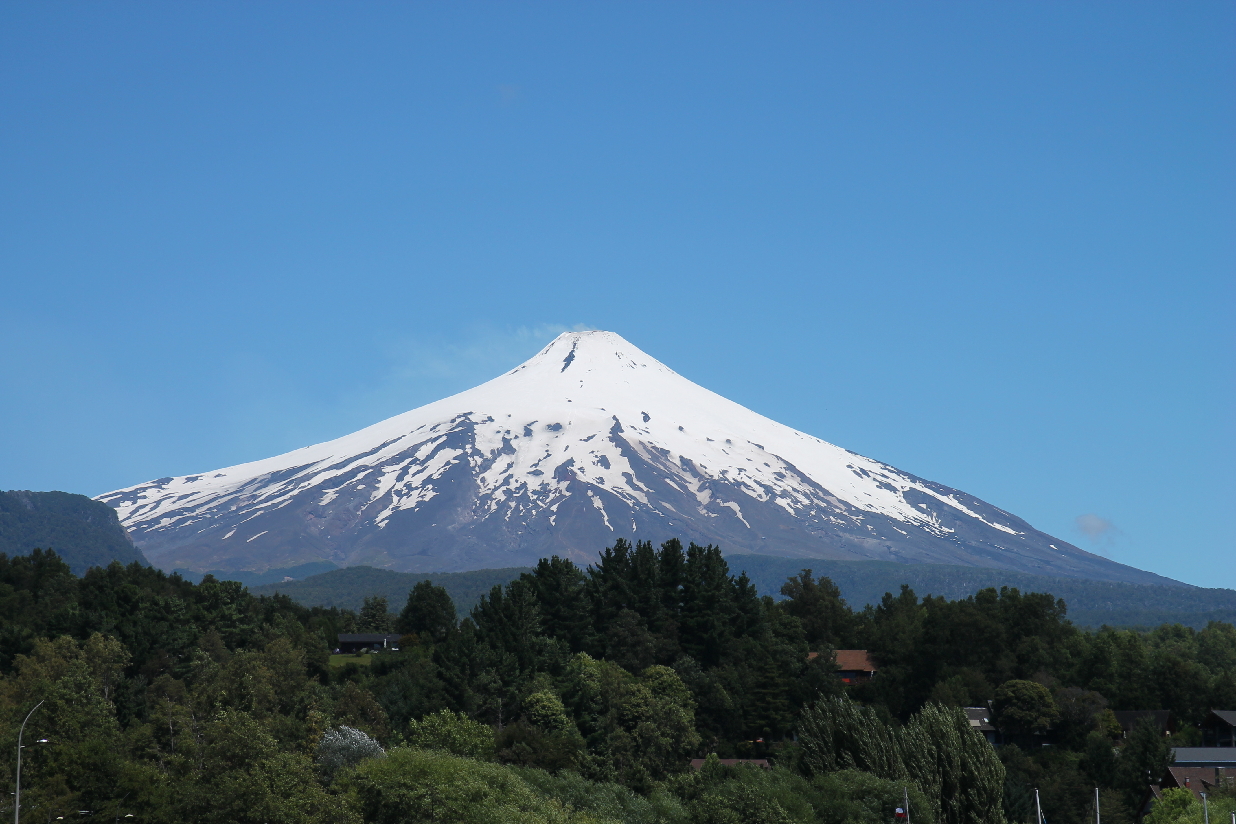 Villarrica Volcano as seen from Pucón